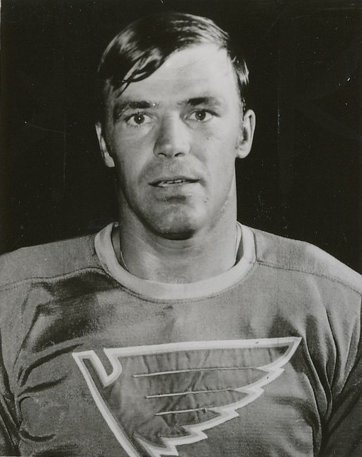 Jean-Guy Talbot in 1970